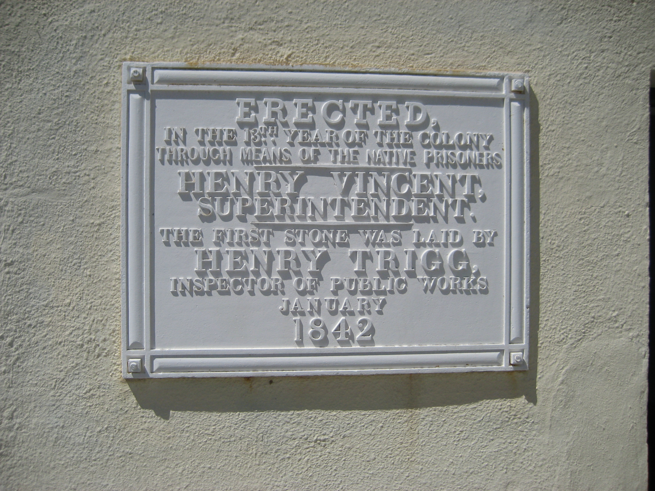 Rottnest Island, Western Australia